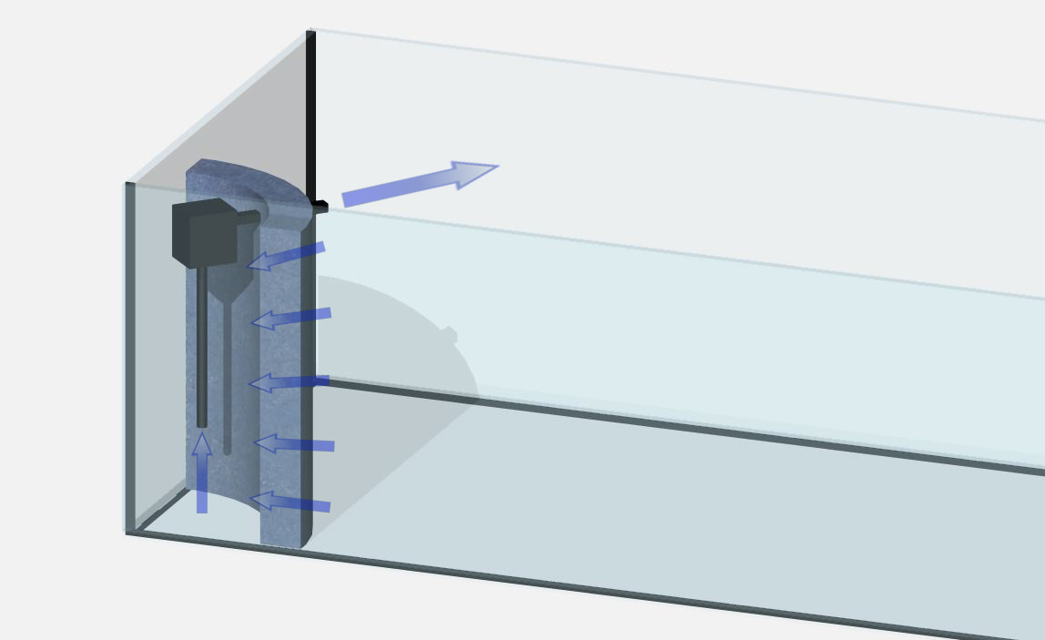 CAD-Image of a "Hamburger Mat Filter", waterflow as blue arrows.